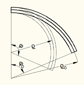 Deformation of the arc-shaped thermo bimetal under the impact of the increase of temperature.